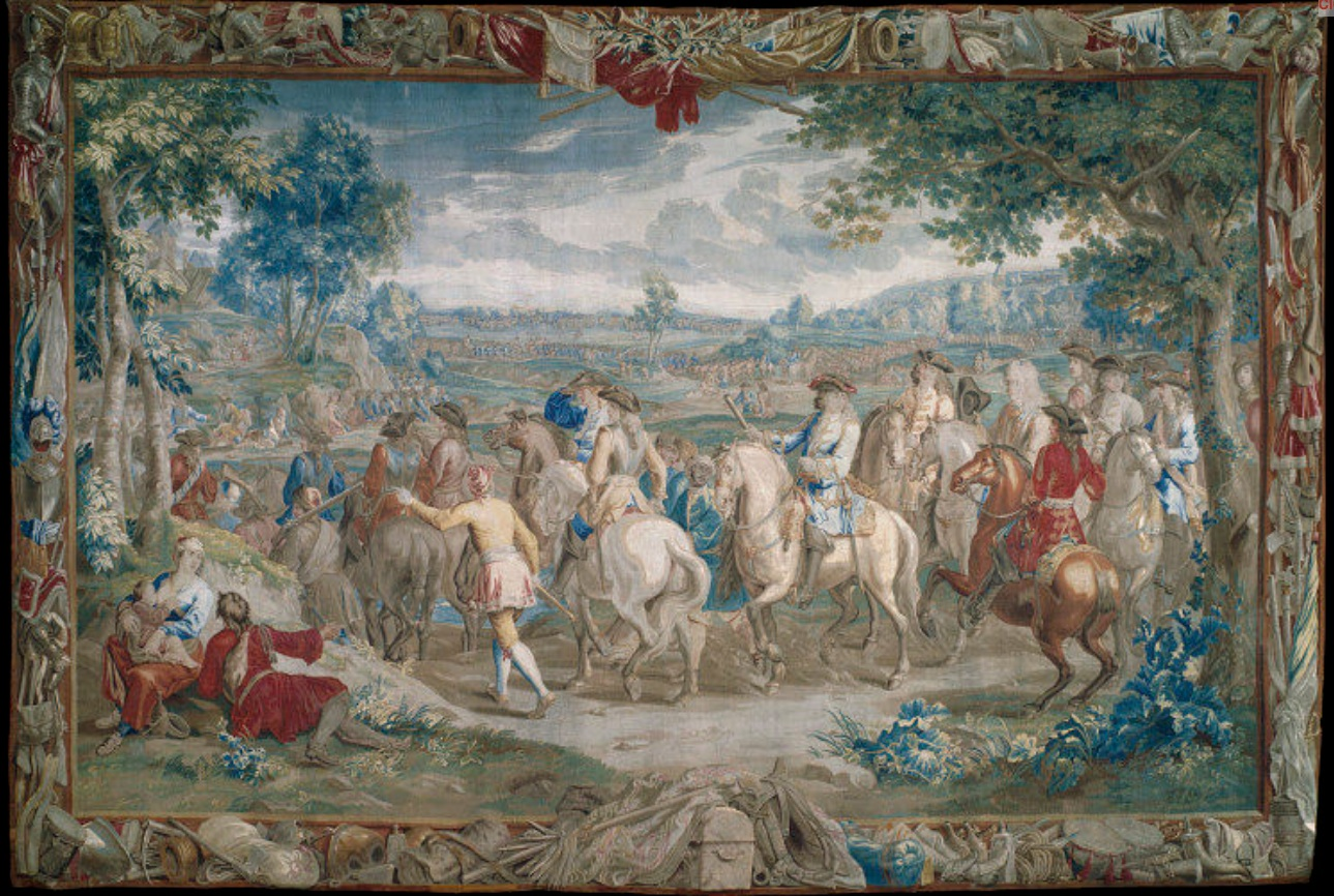 The March frmom The Art of War (second series)